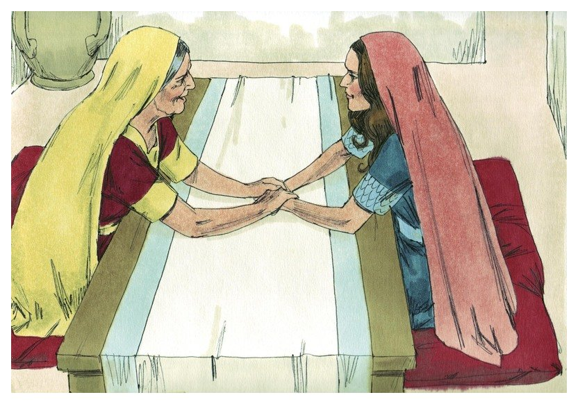 Biblical illustration of Book of Ruth Chapter 3